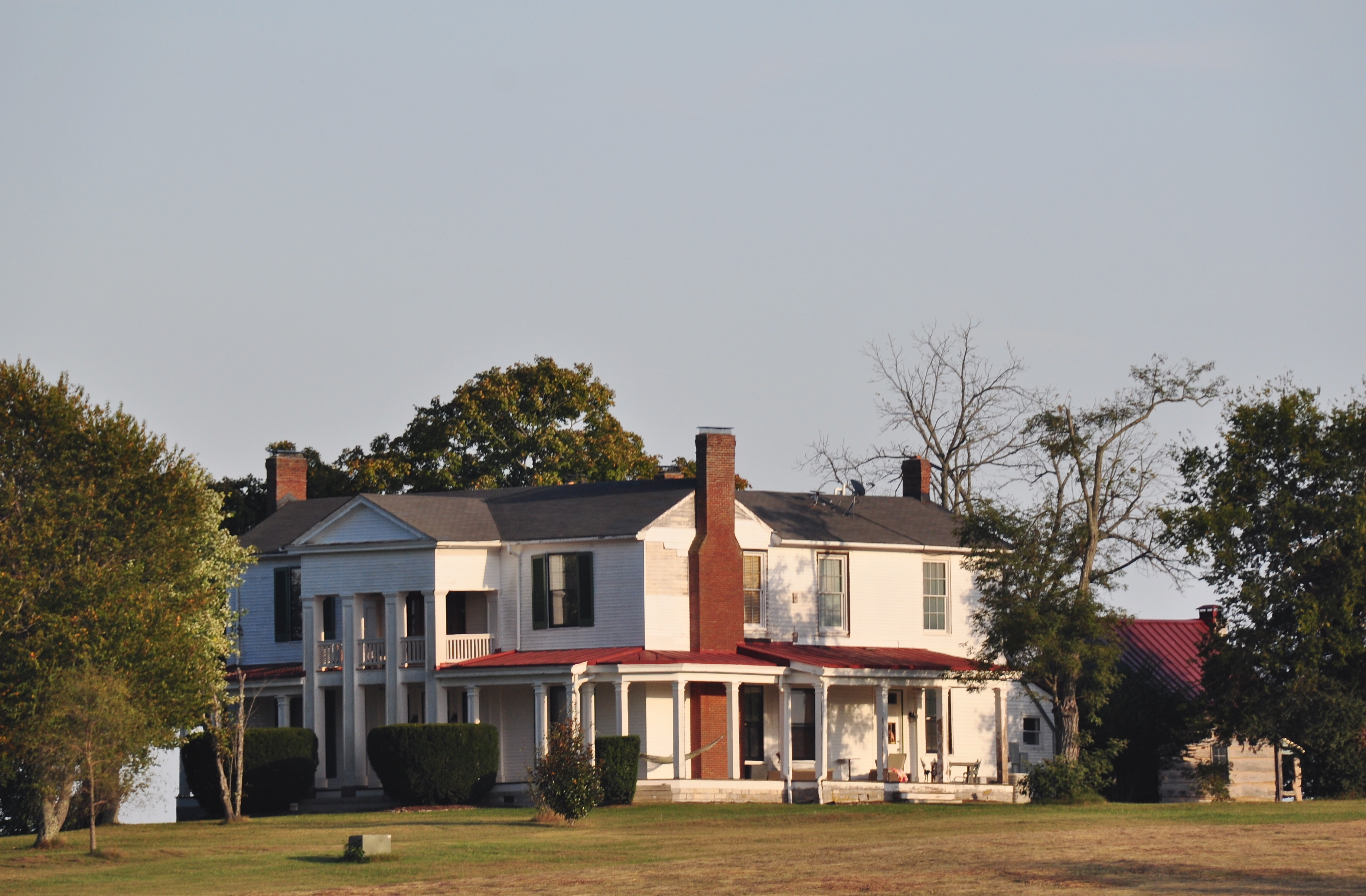 Claiborne Kinnard House, Carters Creek Pike, 0.5 miles (0.80 km) north of Bear Creek Rd. Franklin